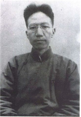 Chen Yinke(3 July 1890 - 7 October 1969)was a sinologist and a fellow of Academia Sinica.